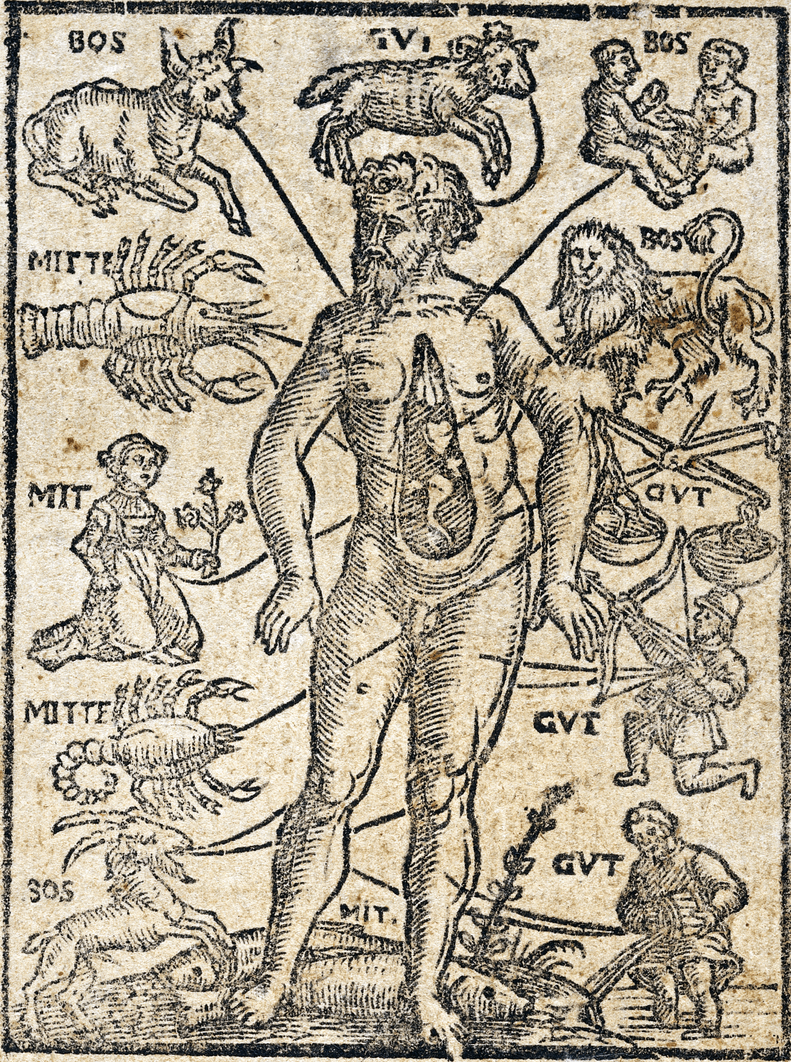 Woodcut of the Homo Signorum, or Zodiac Man, from a 1580 almanac.